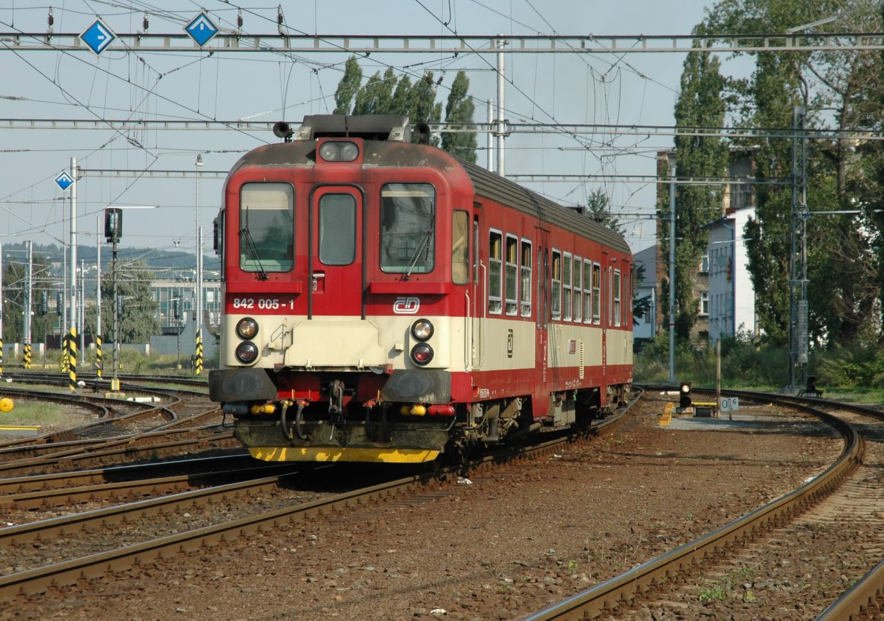 Railcar 842.005 of ČD during shunting at station Ostrava hlavní nádraží, Czech Republic